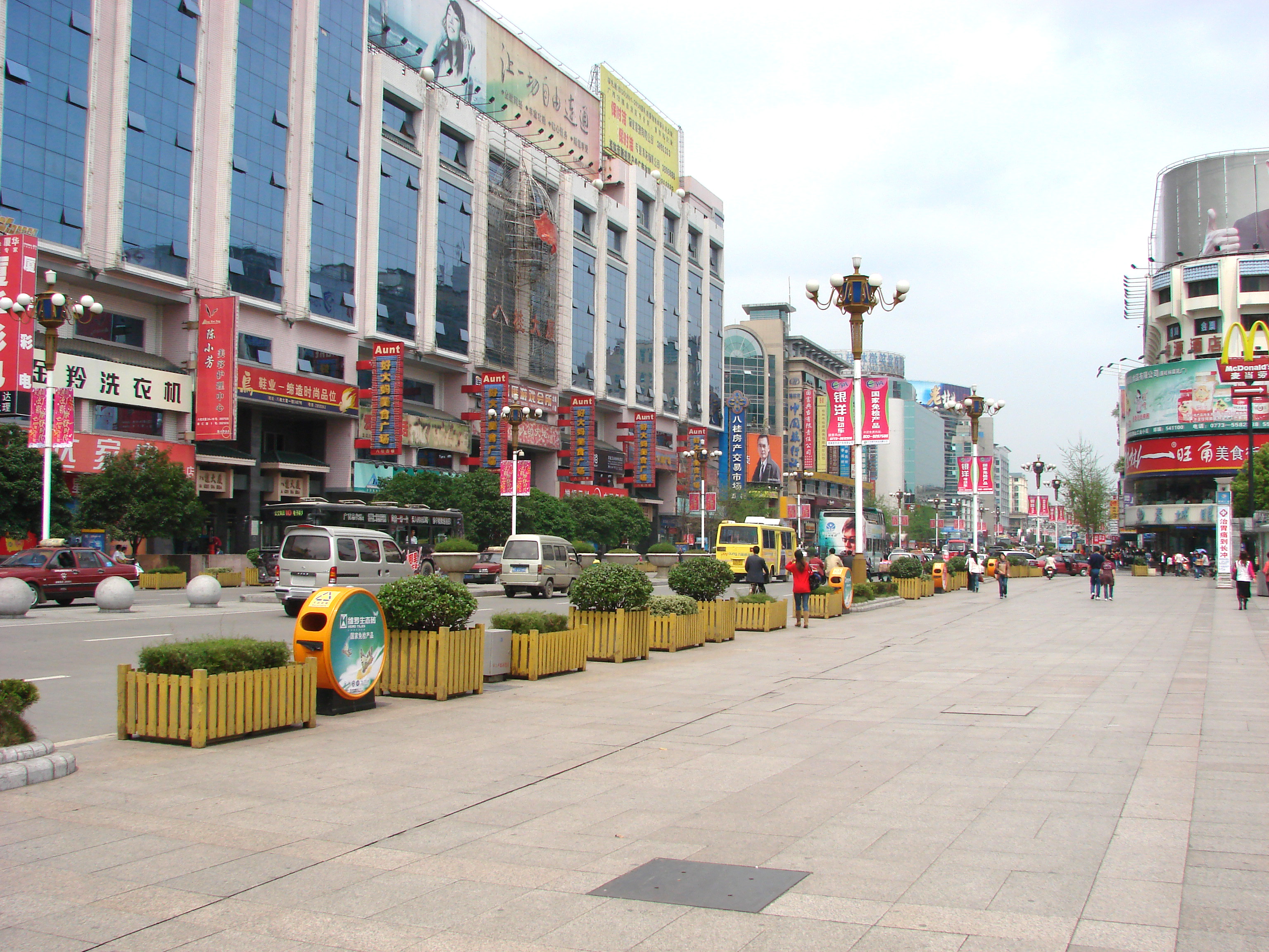 Guilin (China) main street